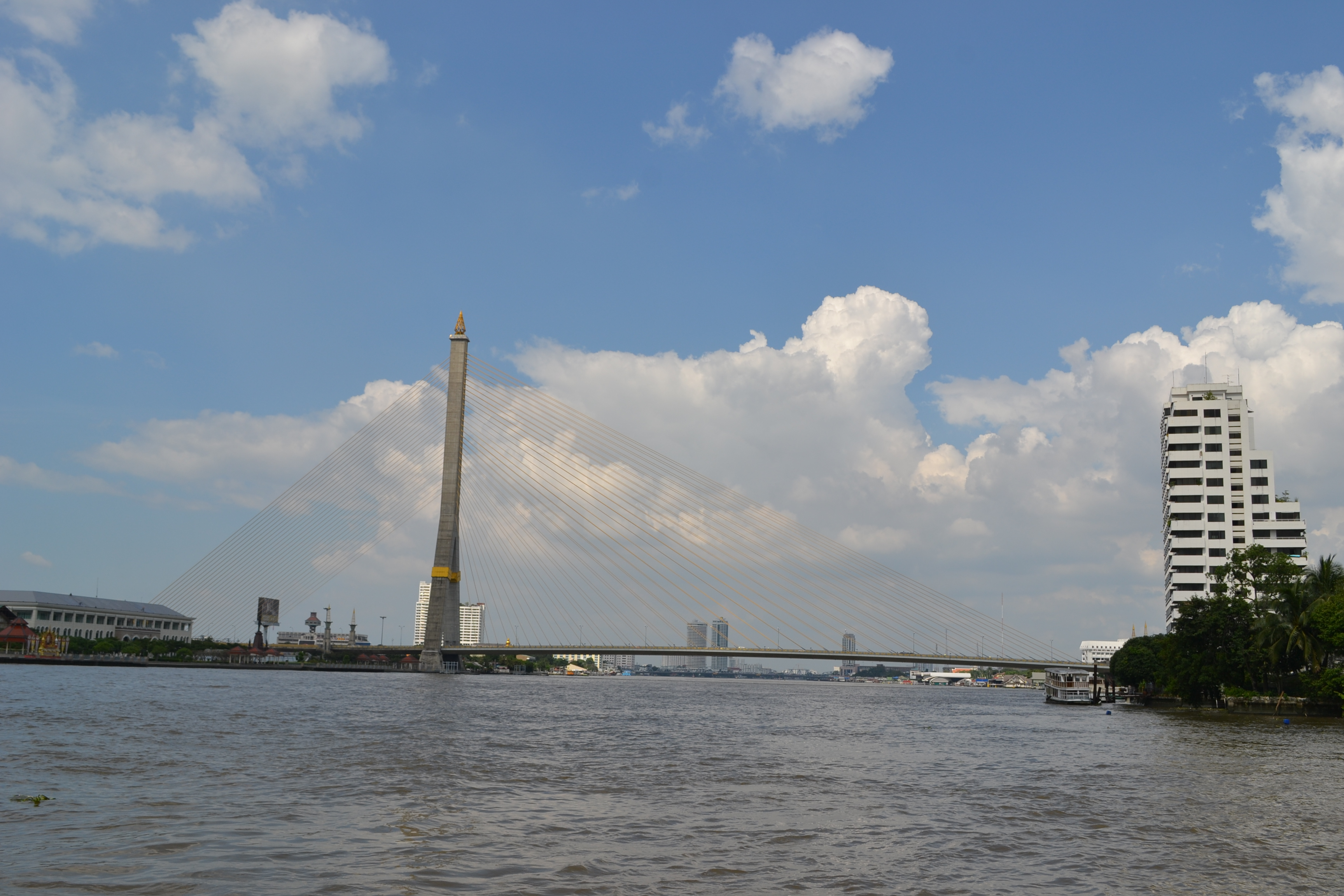 View to Rama IX bridge in Bangkok, Thailand.